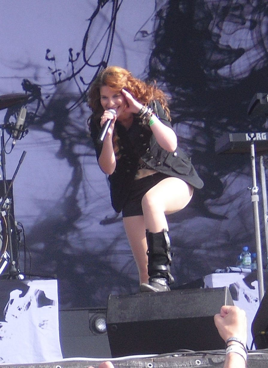 Charlotte Wessels of Delain on Live Wacken 2010